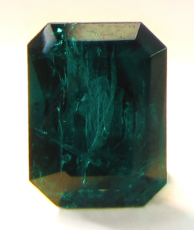 Dioptase Locality: Christoff Mine, Kaokoveld Plateau, Kunene Region, Namibia (Locality at ) Size: thumbnail, 2.16 carats Dioptase (2.16 carat gem) Thumbnail (2.16 carat). Dioptase gems in sizes above 1 carat are very hard to obtain. Although not totally clean, this is overall mostly transparent, and has an even and saturated color. A beautiful rare gem. A well-cut, rare gem - notable in size - cut by Spectrum Award winner Mark Kaufman. Ex. Charlie Key.